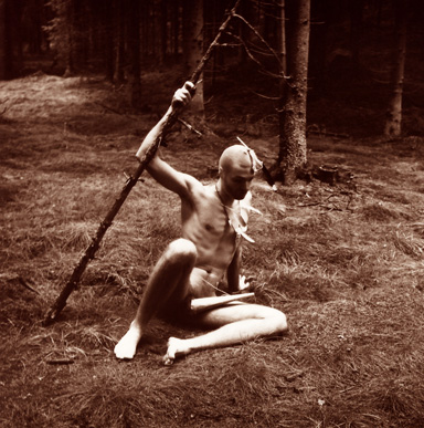 Cromagnon